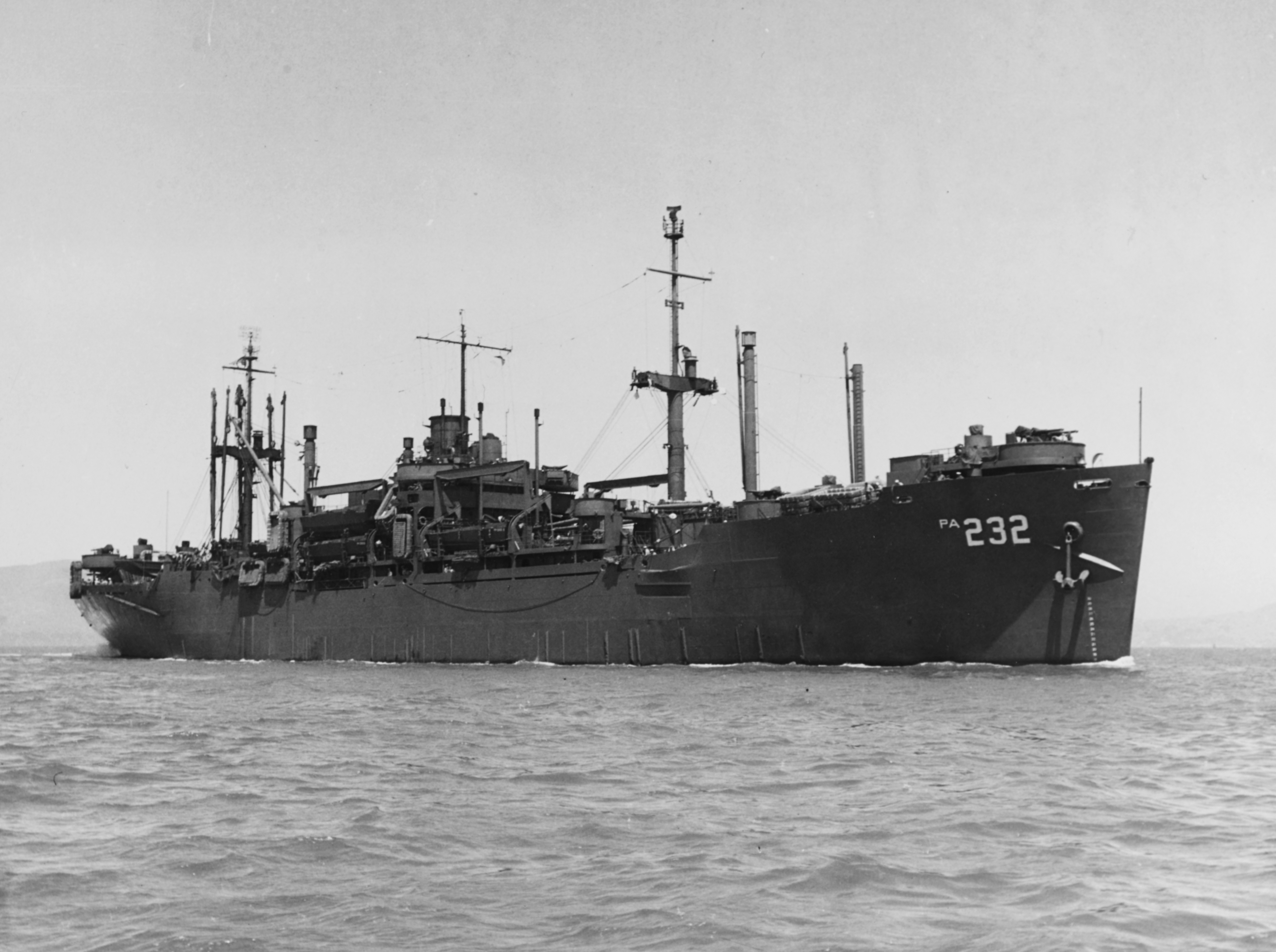 The U.S. Navy attack transport USS San Saba (APA-232) underway, circa in 1945.